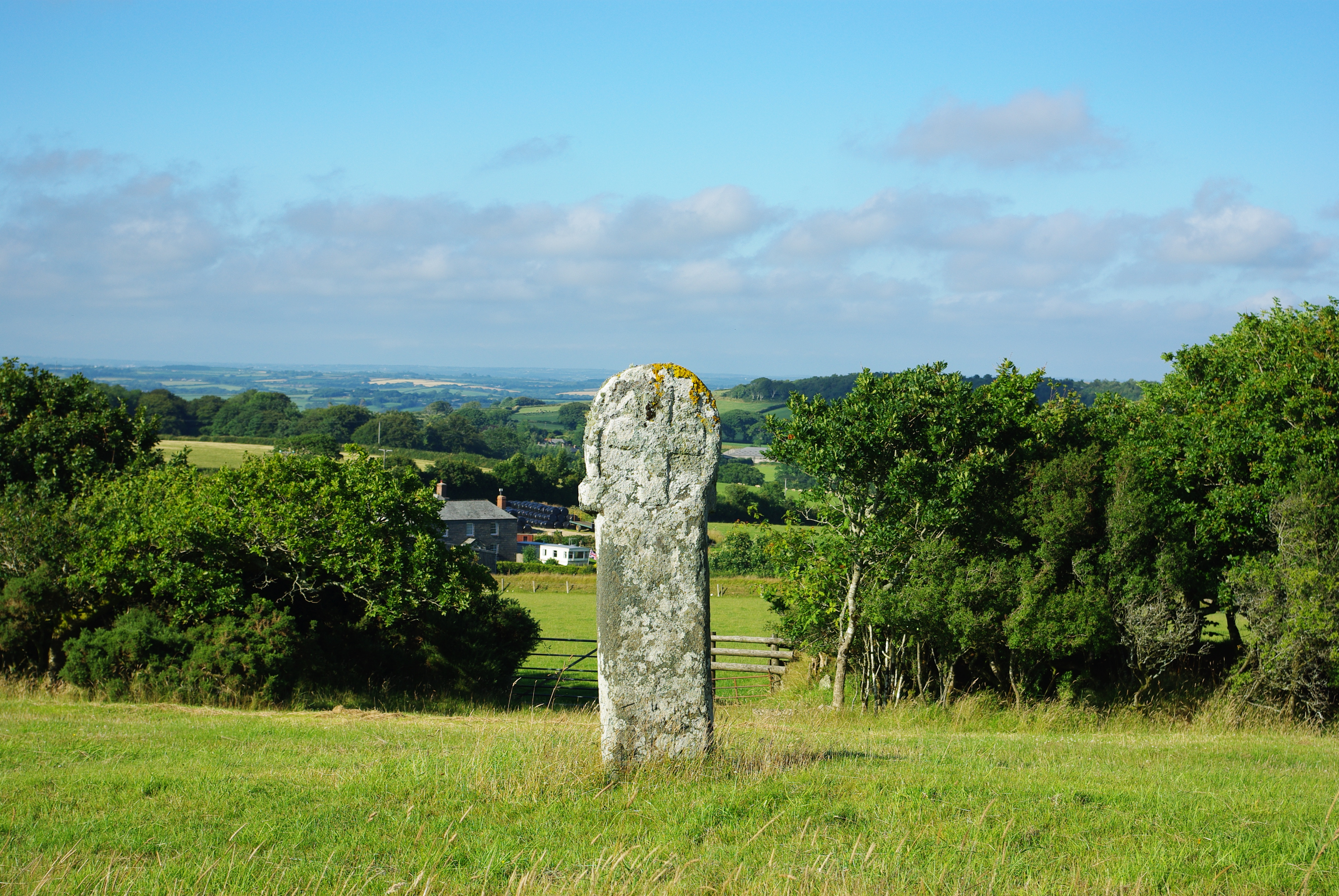 Stone cross on Laneast downs, near to Laneast, Cornwall, Great Britain.